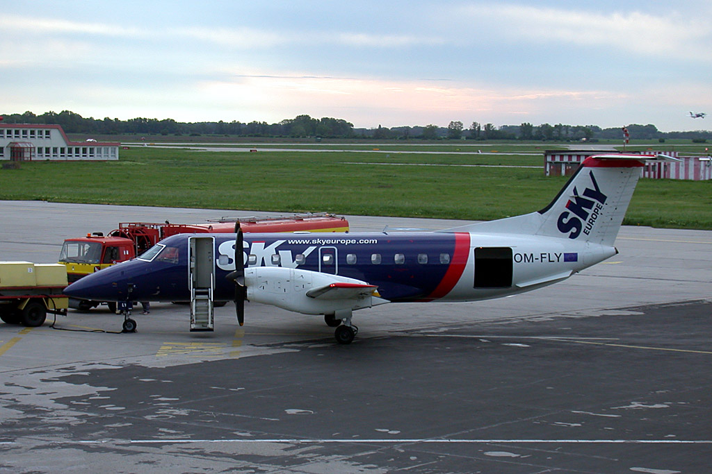 Photo of a SkyEurope Embraer 120 in Bratislava